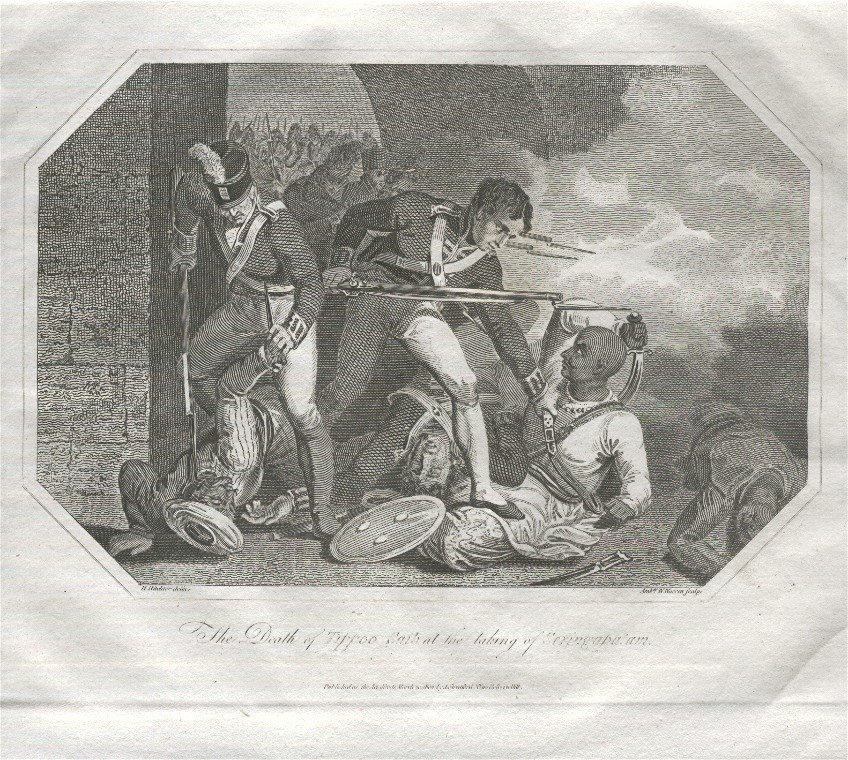 "The Death of Tippoo Saib at the taking of Seringapatam,"